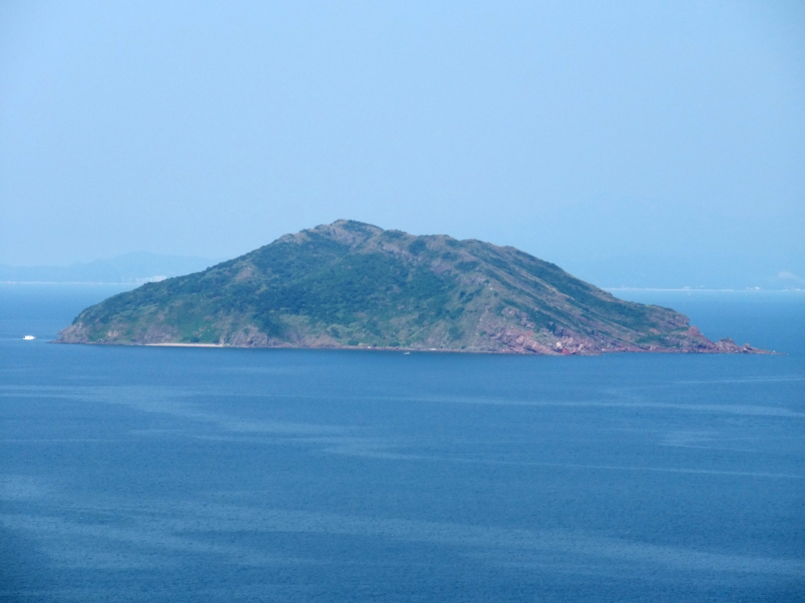 Photo of Port Island